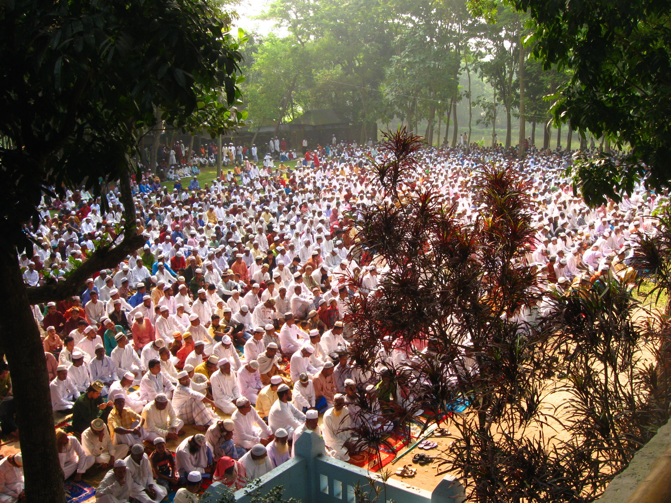 Males from around the Barashalghar union of Comilla's Debidwar upazila in Bangladesh can be seen attending Khutbah as part of the Eid-ul-Adha prayers on 7 November, 2011.